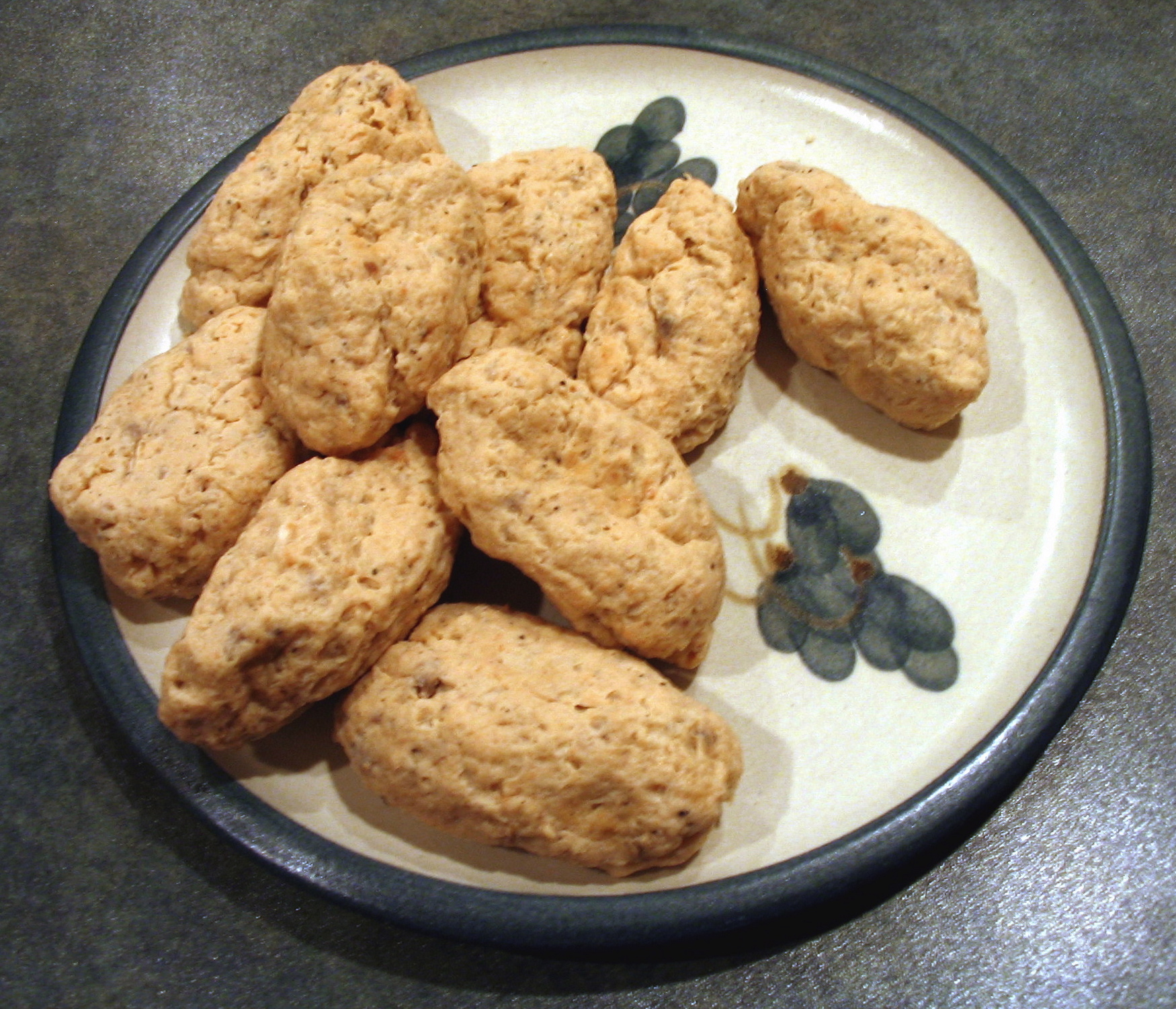 Gefilte fish